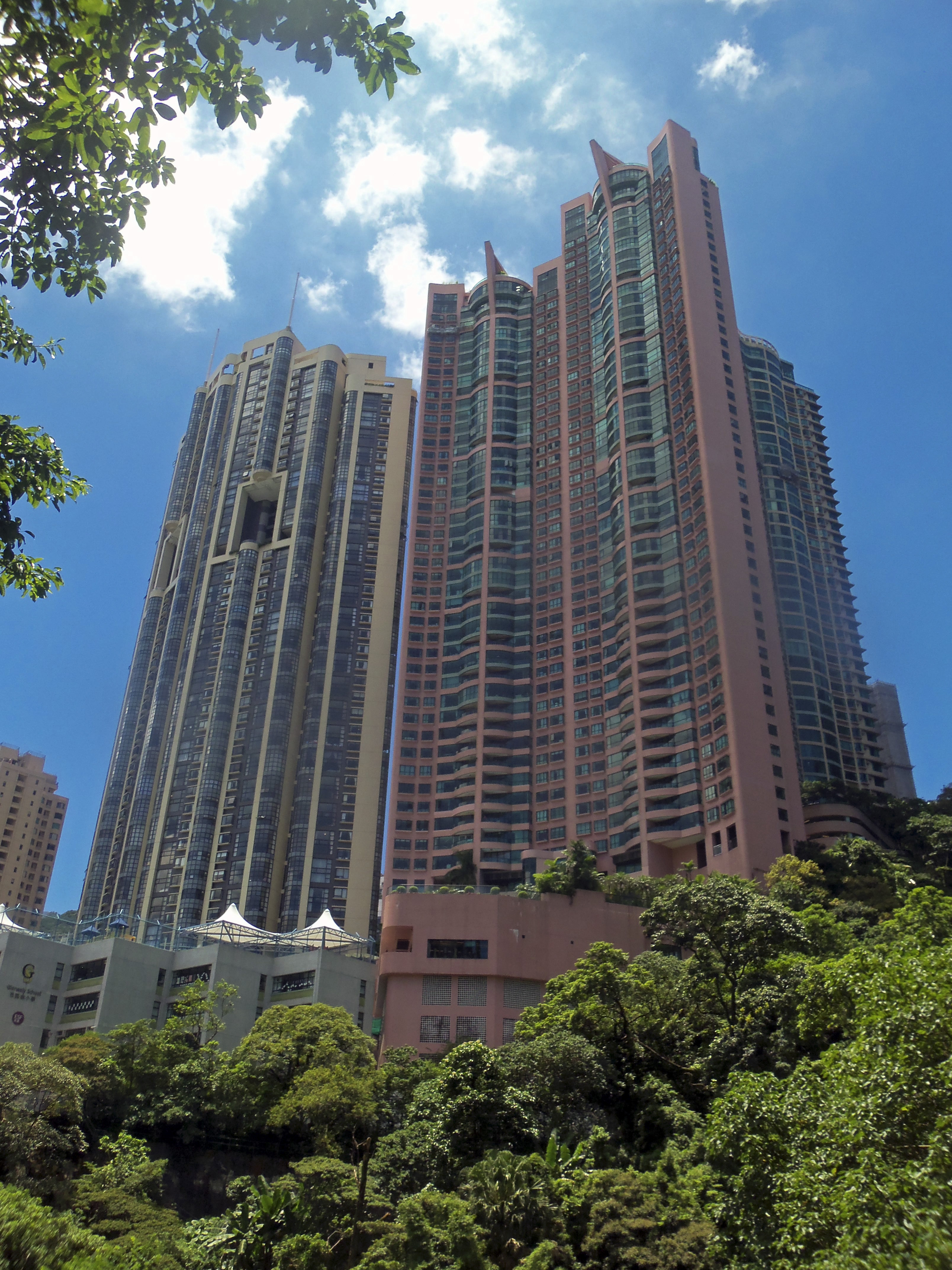 Dynasty Court Tower 1 and 2 apartment buildings on Old Peak Road, seen from Hornsey Road, in Mid-levels, Hong Kong.